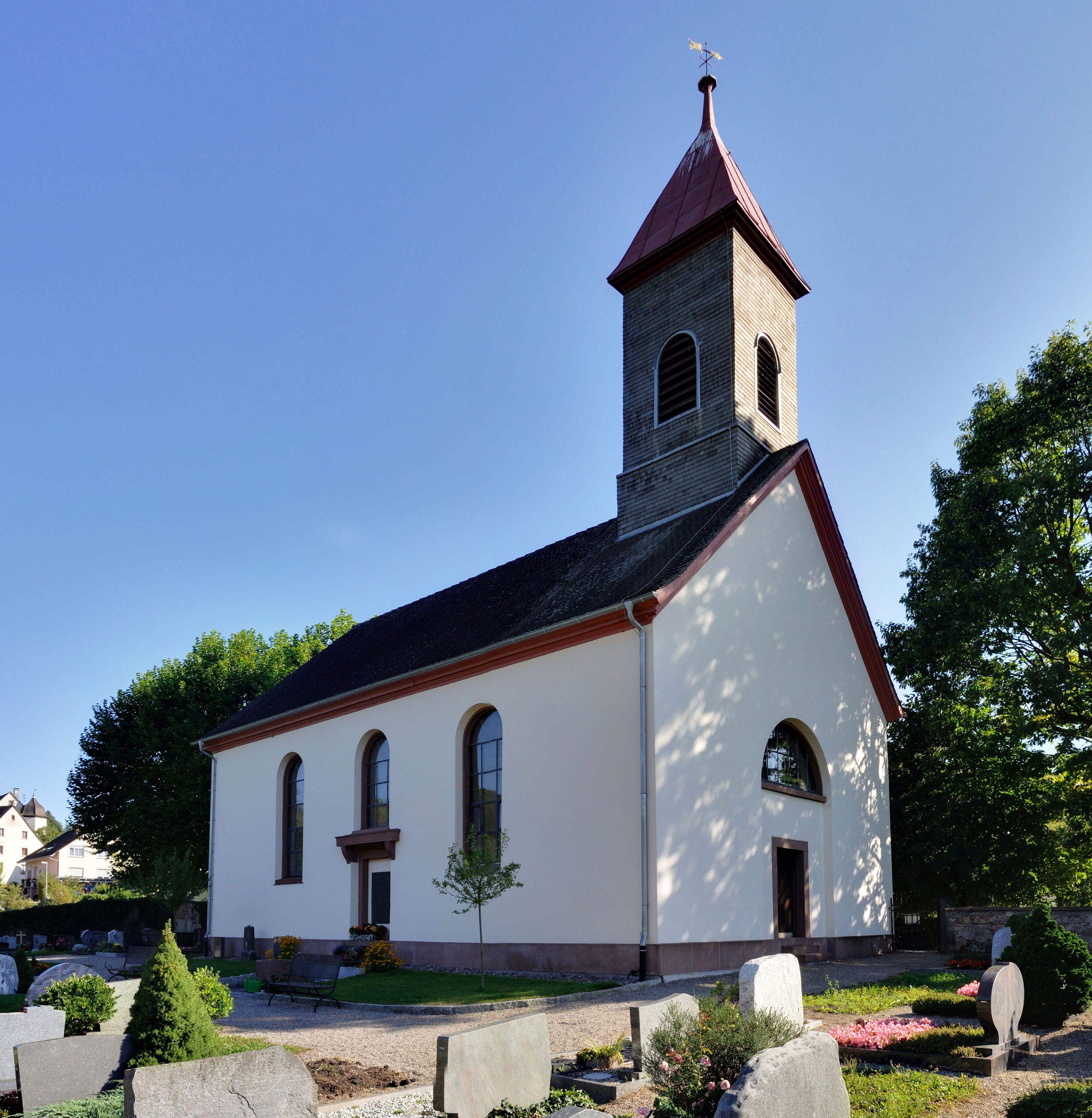 Schopfheim-Eichen: Protestant Church